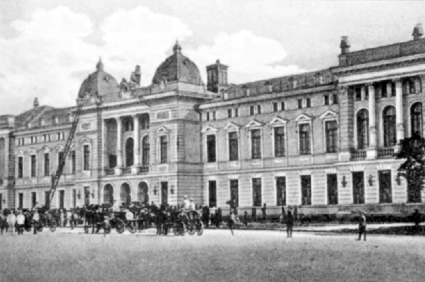 Old picture